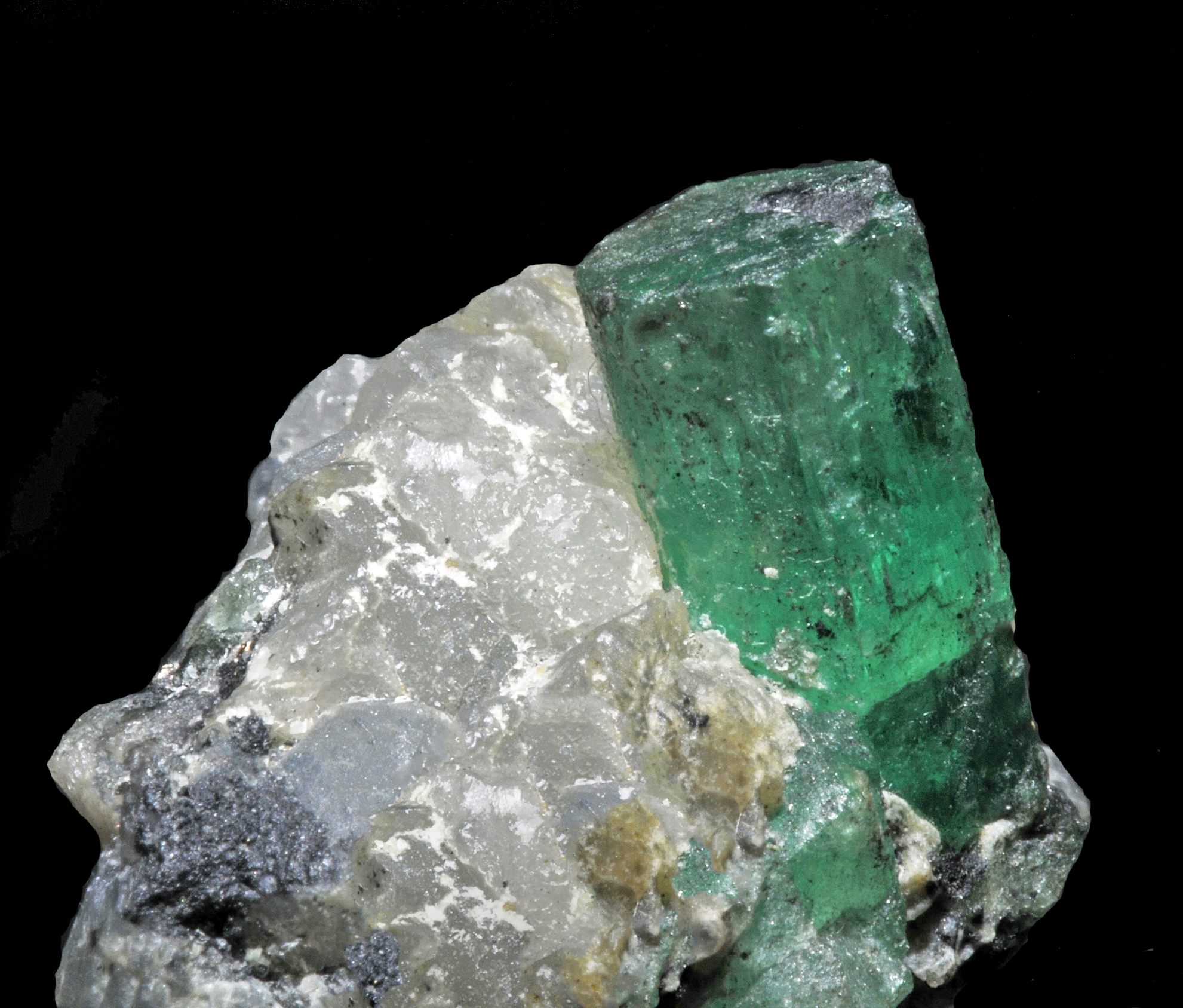 beryl var. emerald : Muzo Mine, Mun. de Muzo, Vasquez-Yacopí Mining District, Boyacá Department, Colombia